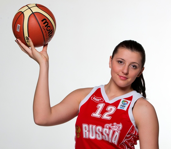 Russian bball player